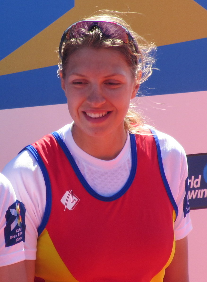 Mădălina Bereș at the 2016 European Rowing Championships in Brandenburg an der Havel, Germany